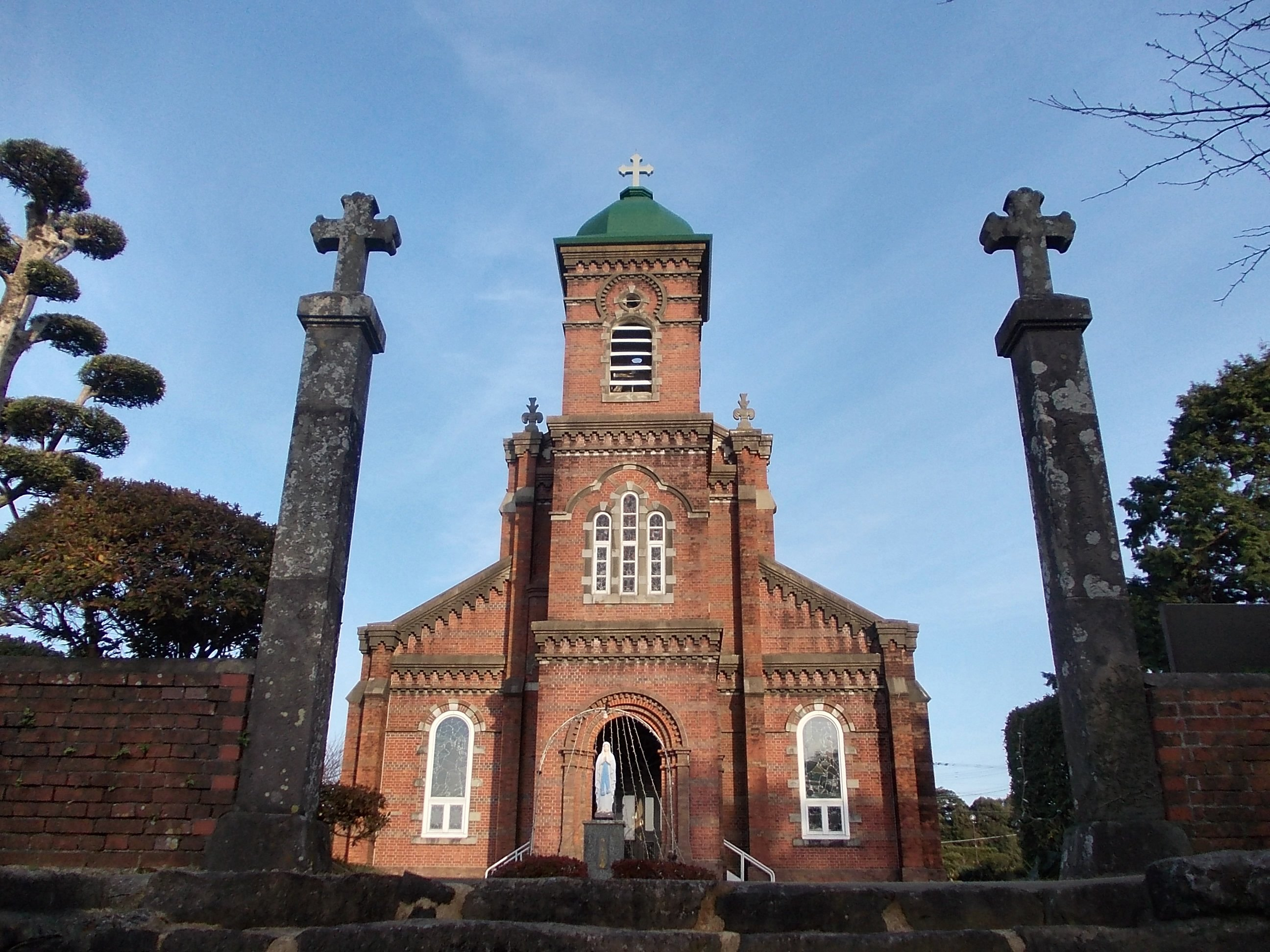 Tabira Catholic Church, Hirado, Nagasaki, Japan